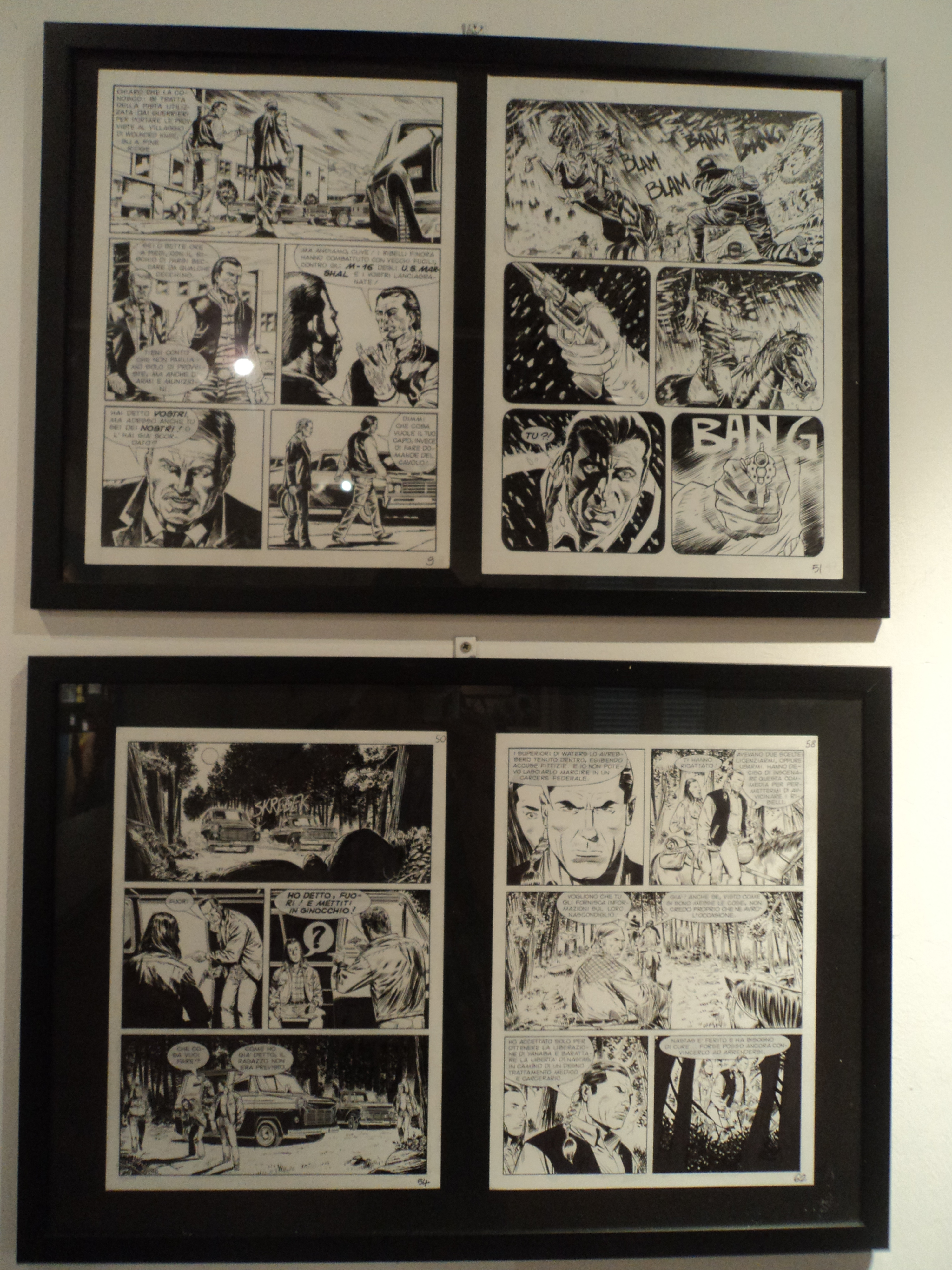 Show L'Audace Bonelli in Rome.